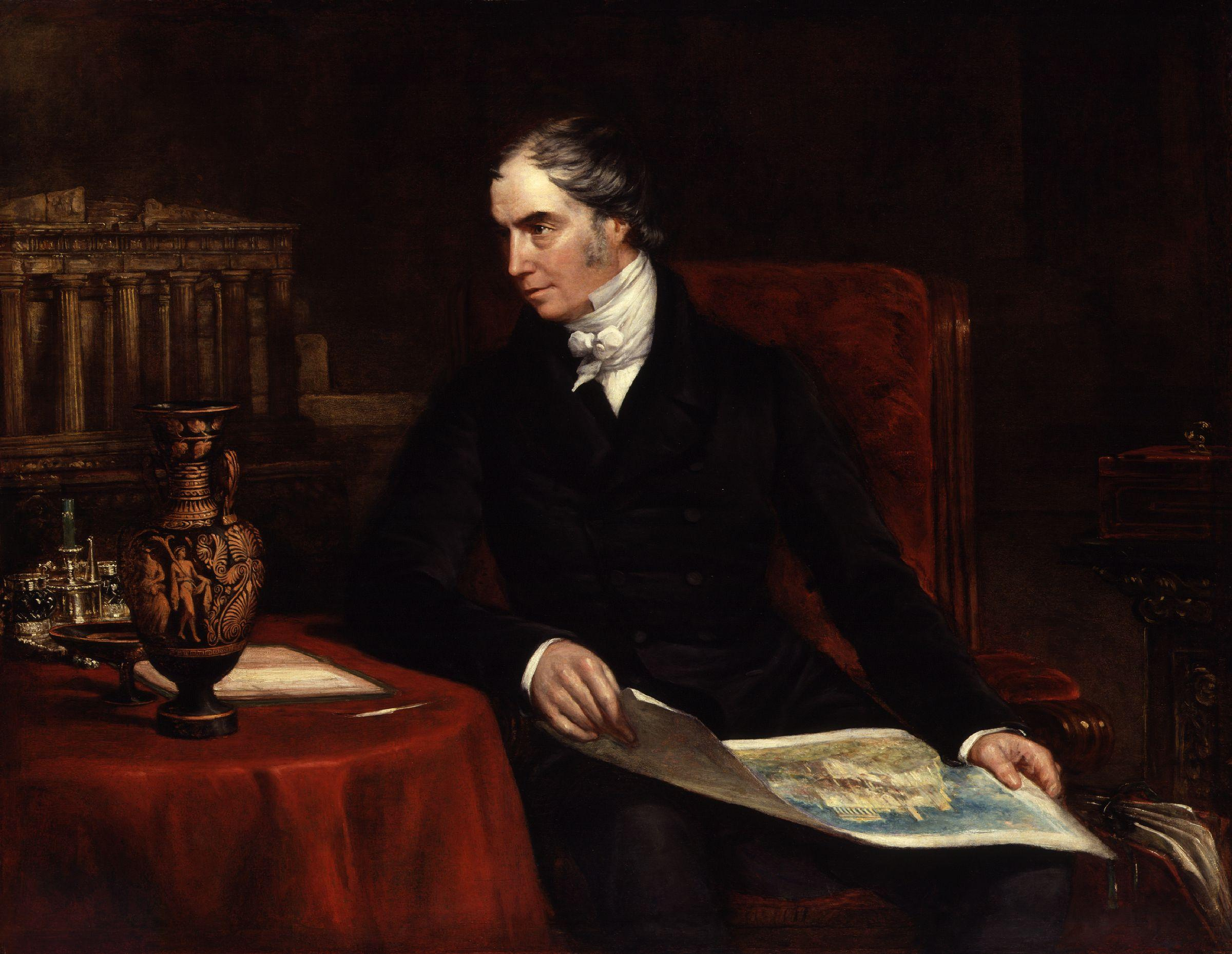 George Hamilton Gordon, 4th Earl of Aberdeen, by John Partridge (died 1872), given to the National Portrait Gallery, London in 1886. All images in this batch have been confirmed as author died before 1939 according to the official death date listed by the NPG.